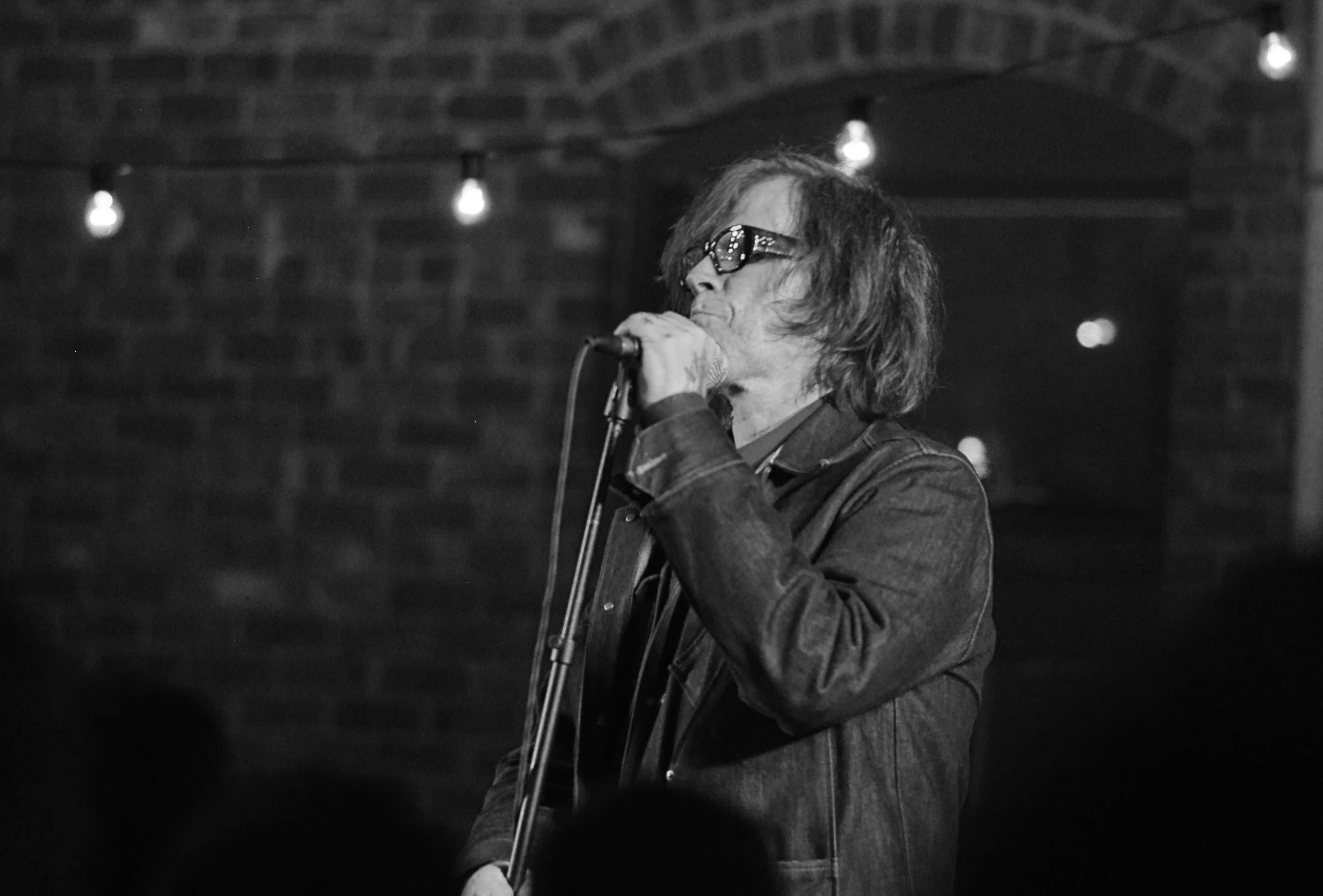 Mark Lanegan appearing at the 2015 Macefield Music Festival, Ballard, Seattle, Washington, U.S.